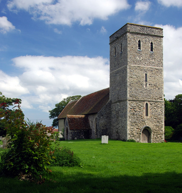 The Church of St. Mary Magdelene, Monkton, Kent